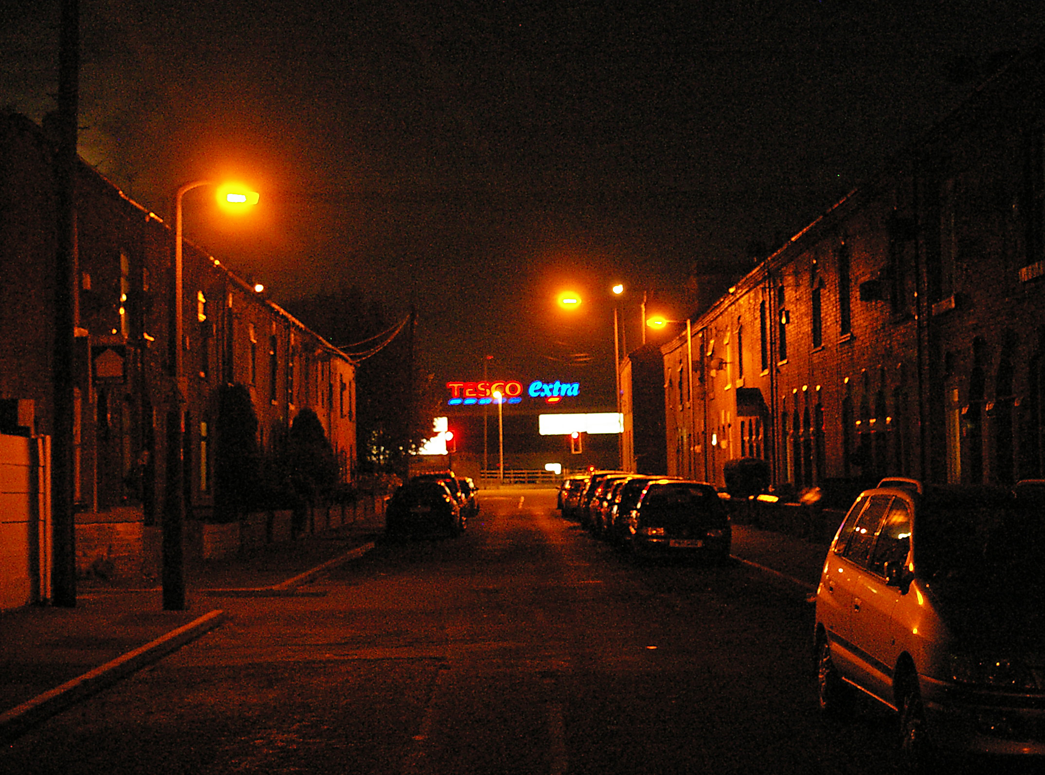 Tesco store in Failsworth, Greater Manchester, England.